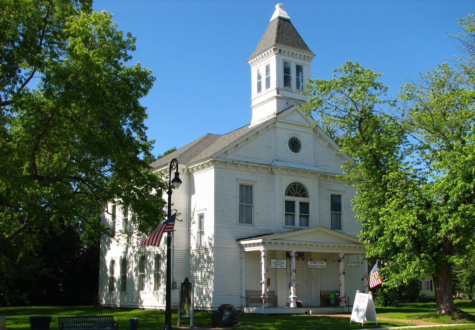 The historic Second Arenac County Courthouse in Omer, Michigan, United States, is listed on the US National Register of Historic Places. It spent much of its life as a Masonic hall and is presently the home of the Arenac County Historical Society.